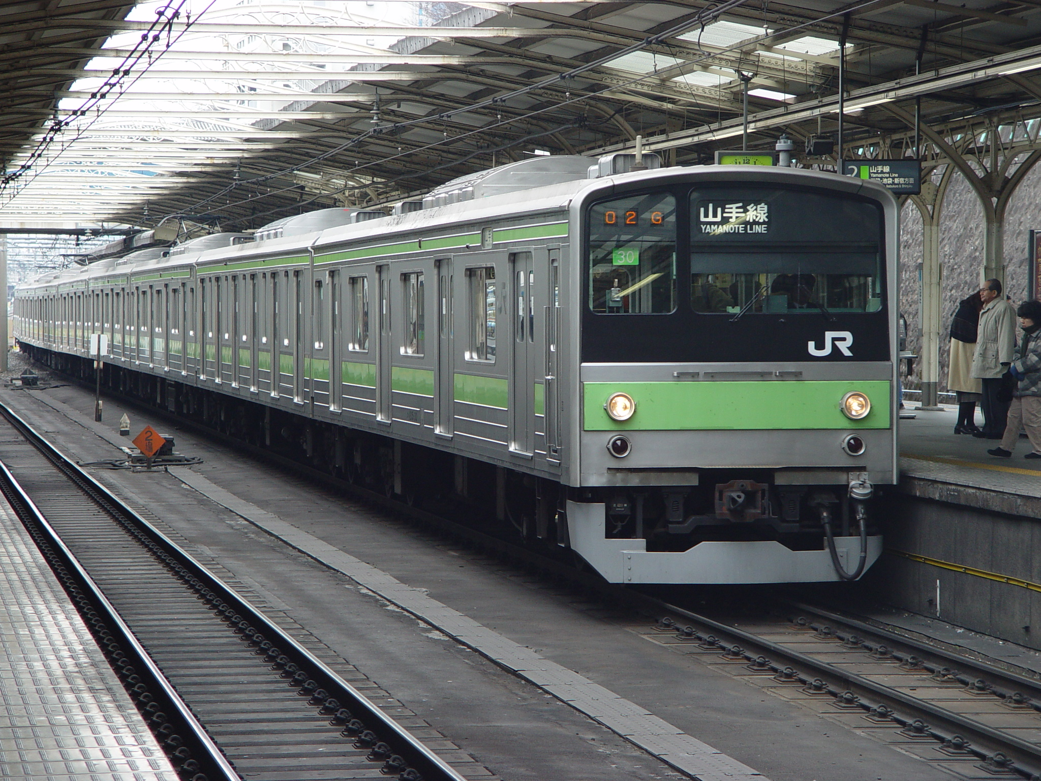 JR East 205 series EMU set 30 at Tabata Station on the Yamanote Line in Tokyo, Japan